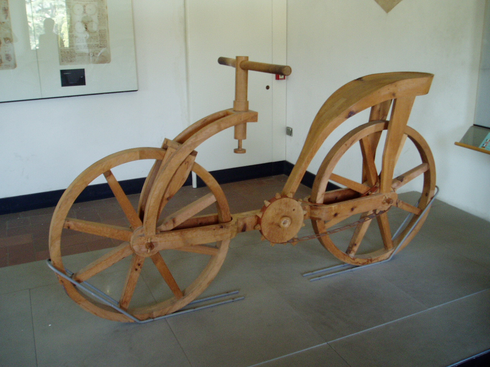 Picture shot in DaVinci's museum in Vinci, Italy Leonardo Museum Native nameMuseo Leonardiano Parent institutionCastello dei Conti Guidi LocationVinci , ItalyCoordinates43° 47′ 15.4″ N, 10° 55′ 37.7″ E Established15 April 1953 Web page Authority control : Q3868400 VIAF: 263573491 LCCN: nr89005090 WorldCat institution QS:P195,Q3868400